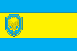 Flag of Velykooleksandrivskyj rajon